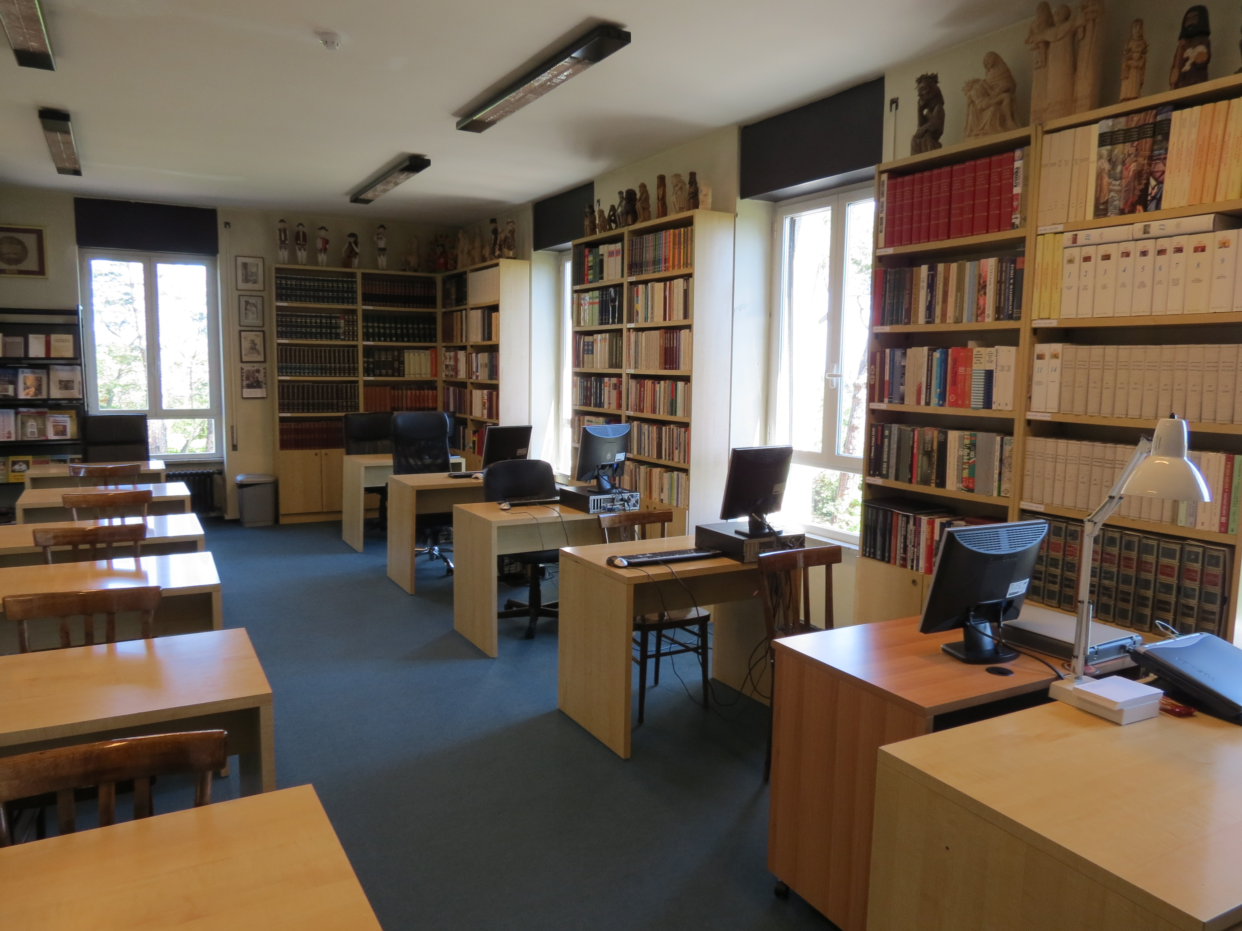 The John Paul II Pontificate’s Center for Documentation and Research in Rome